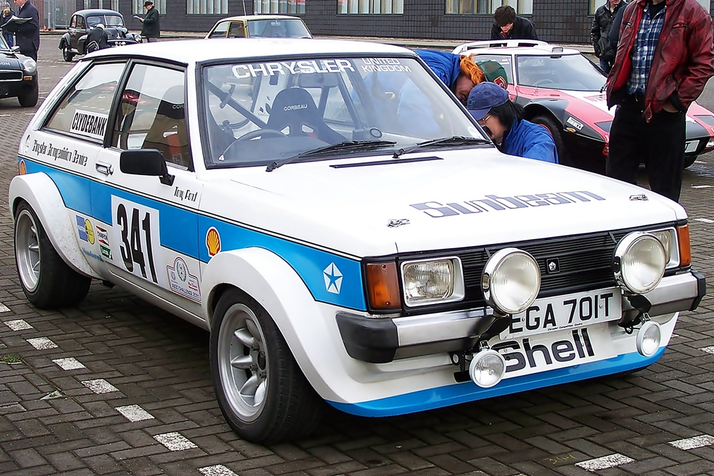 010 EGA 701T Sunbeam